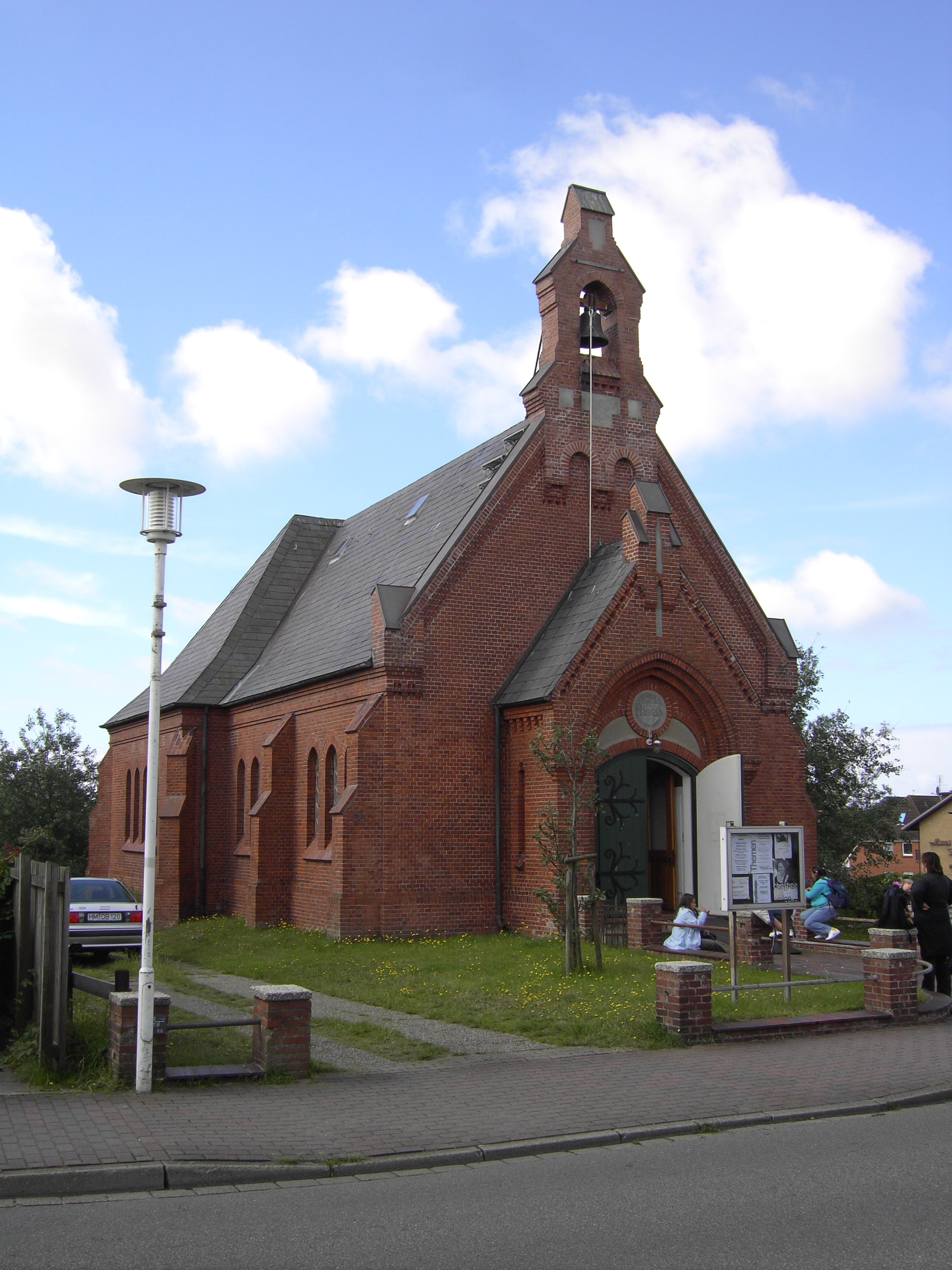 Chapel of Wittdün, Amrum